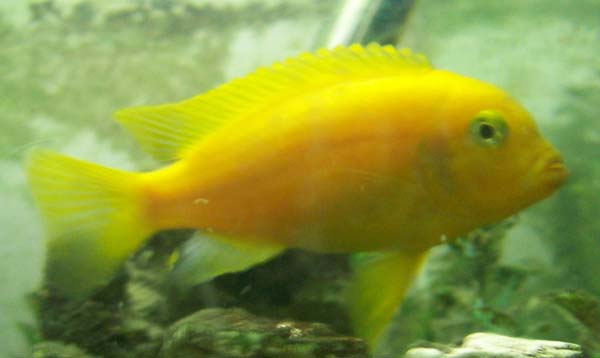 Male Metriaclima lombardoi (kenyi cichlid)